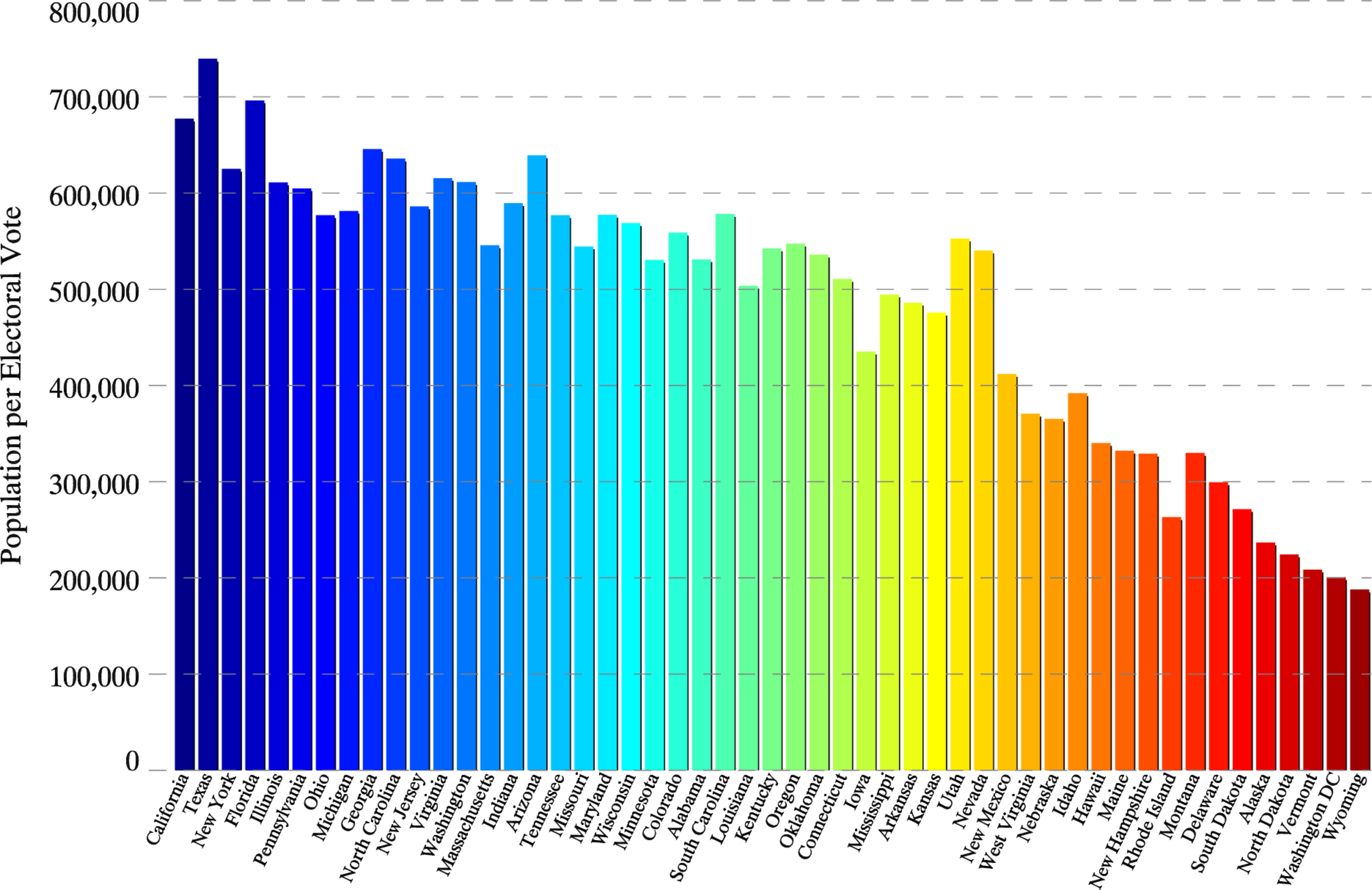 State population per electoral vote for the 50 states and Washington D.C. States are ranked from left to right based on total population, listed at as of October 28, 2012.